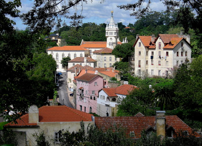 city view of the World Heritage Site